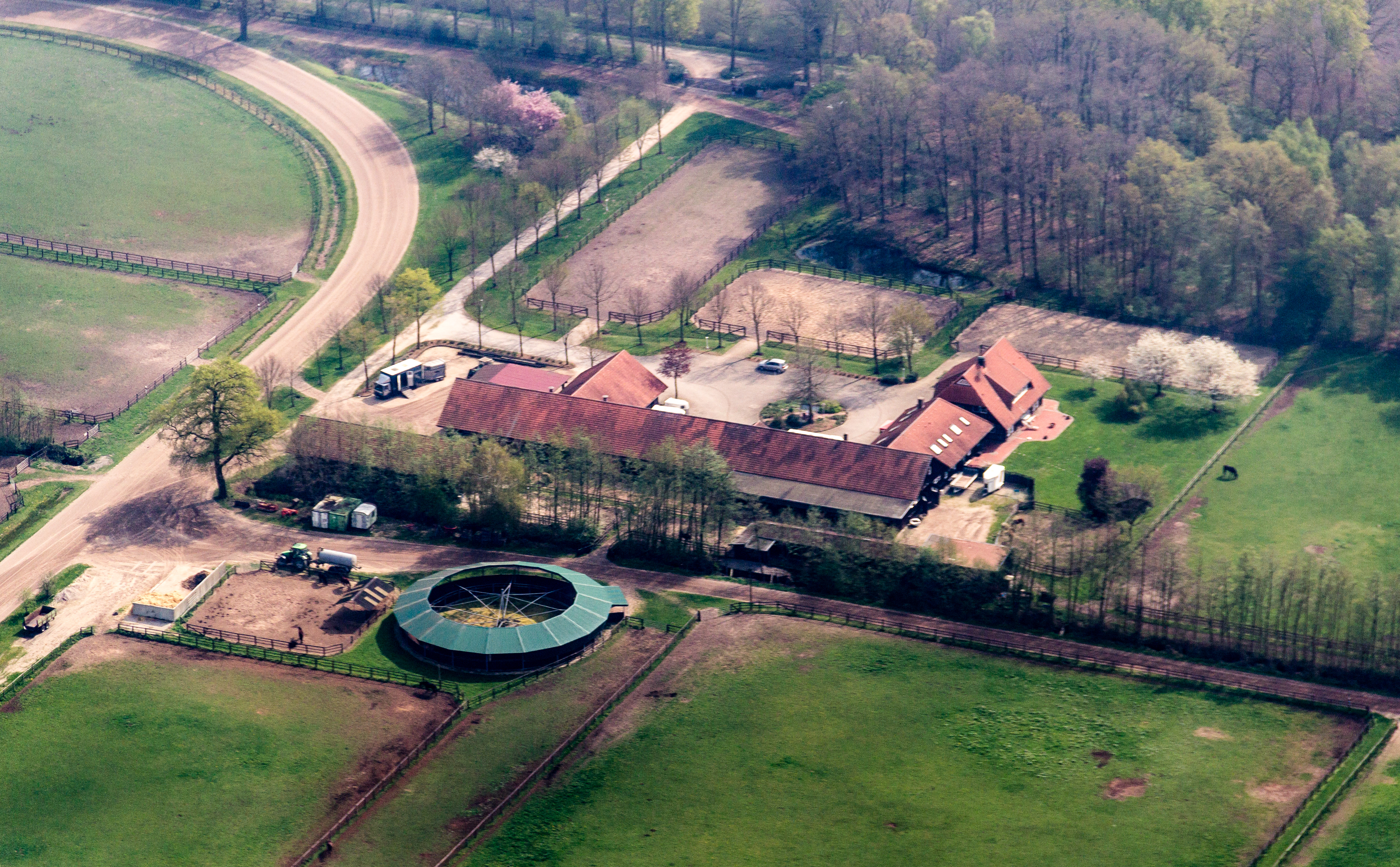 Columbus-Farm, Kirchspiel, Dülmen, North Rhine-Westphalia, Germany